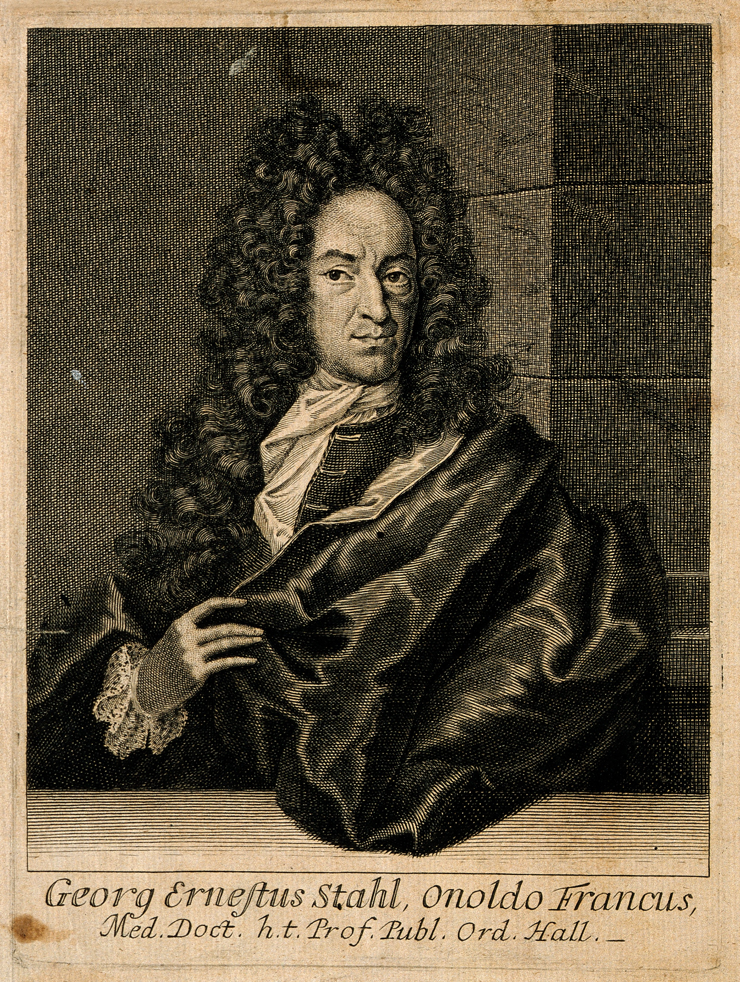 Georg Ernst Stahl. Line engraving, 1715. Iconographic Collections Keywords: portrait prints; Georg Ernst Stahl; engravings